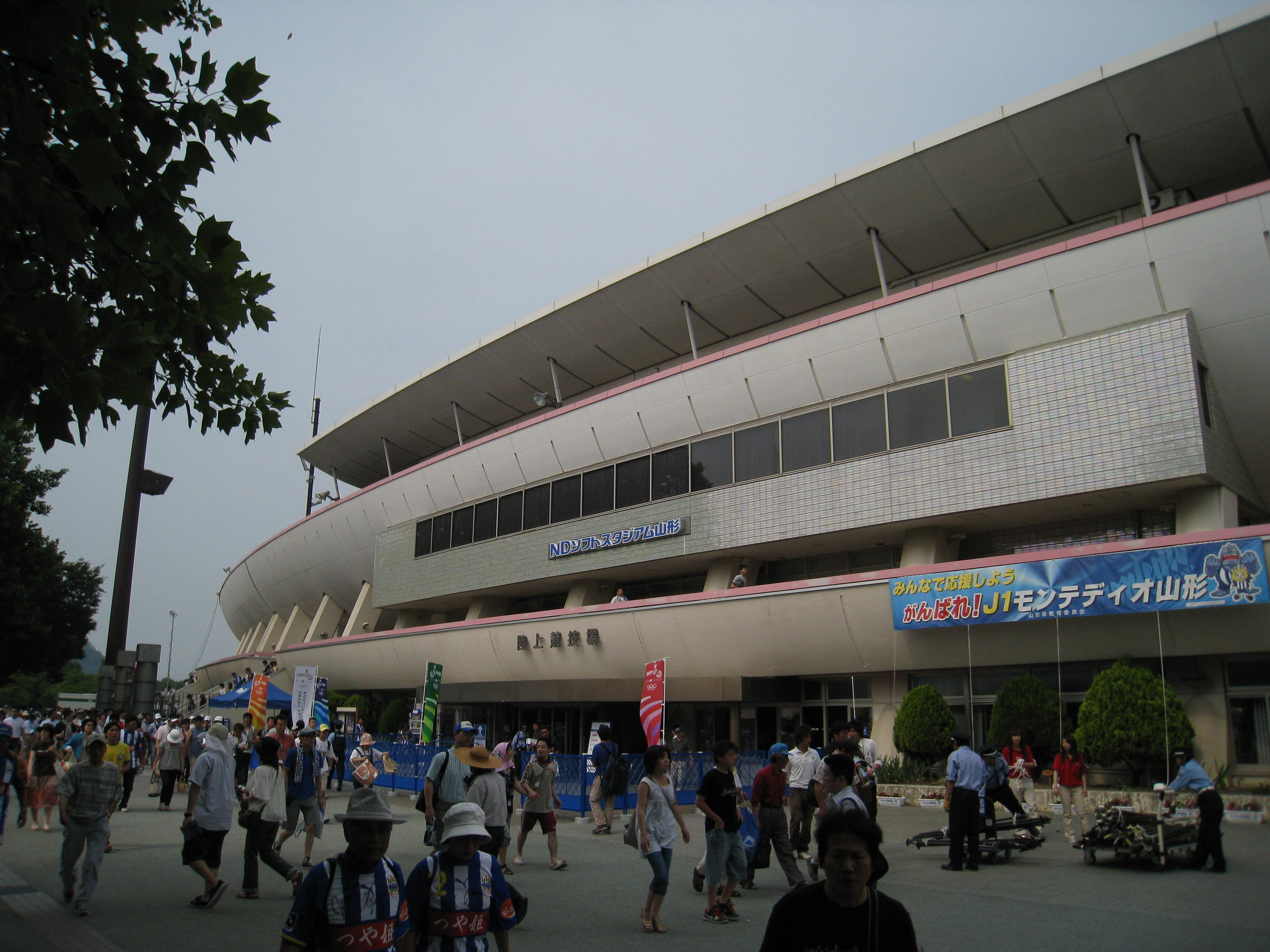 NDsoftstadium.yamagata-ken,tendo-shi